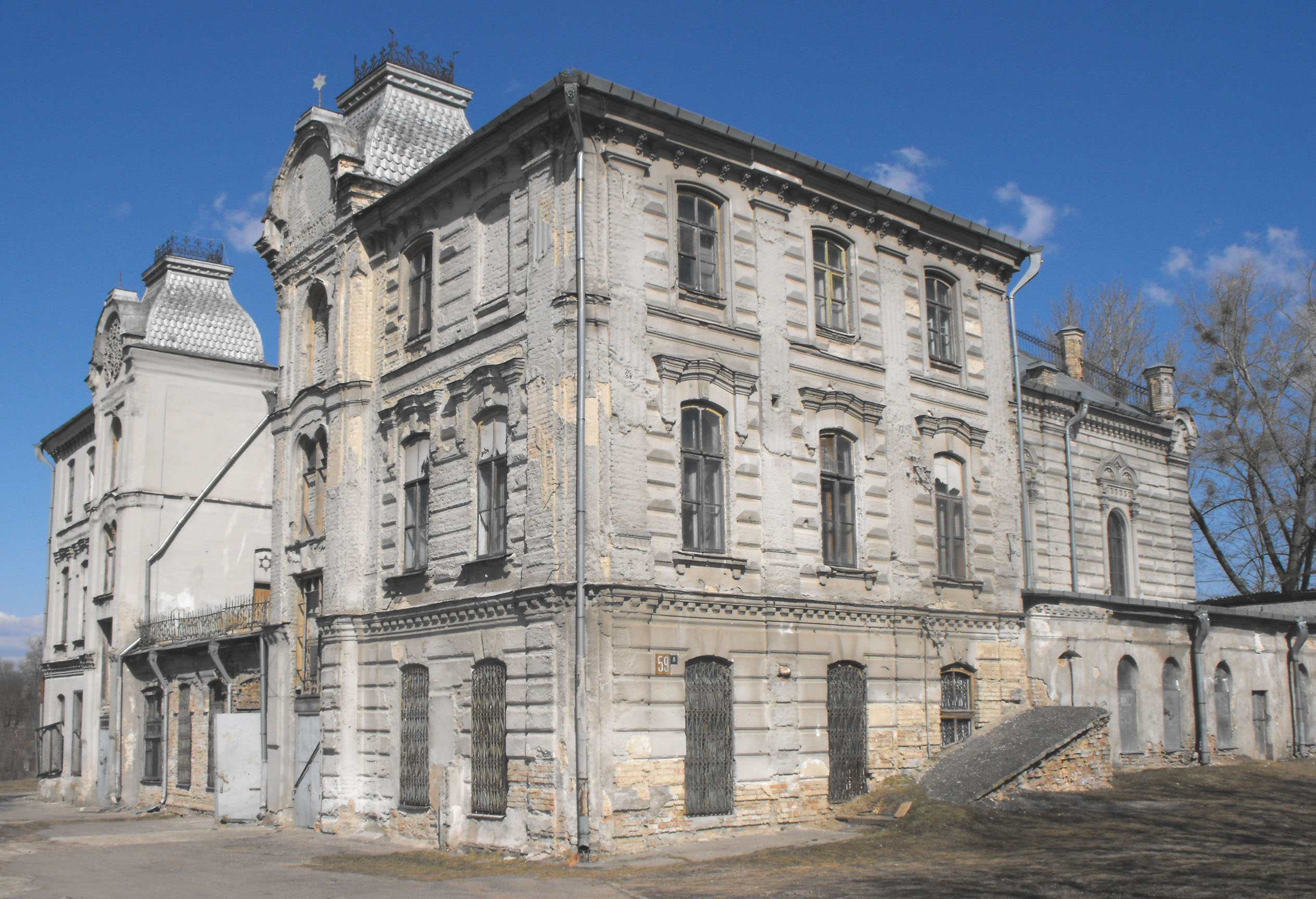 Great sinagoga in Grodno